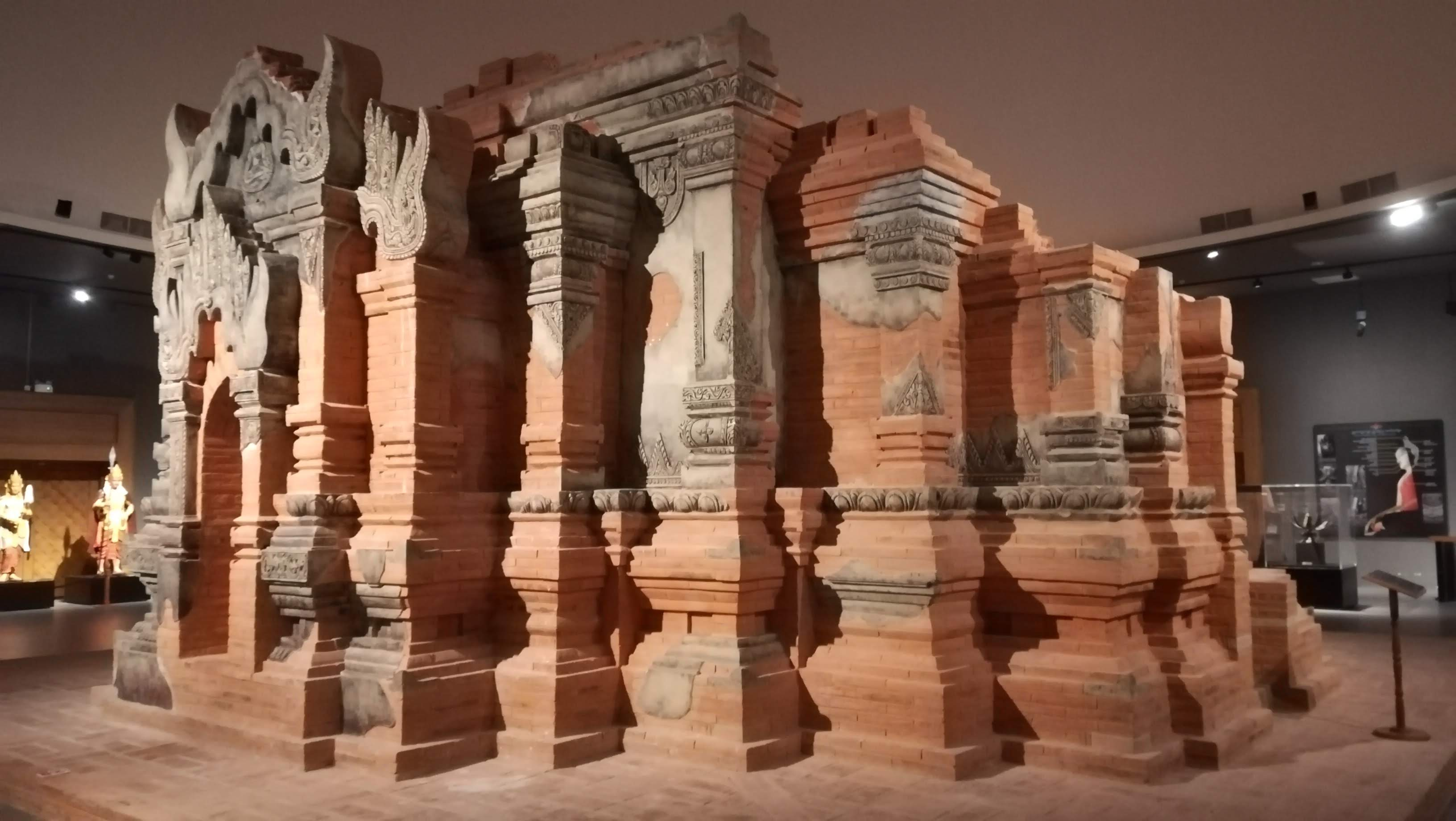 Replica of temple at UNESCO World Heritage Site Bagan, in National Museum, Naypyidaw, Myanmar, Sep 2019